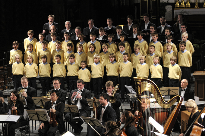 Les Pastoureaux, Petits Chanteurs de Waterloo (Waterloo Boys' Choir), during a concert in Grimbergen